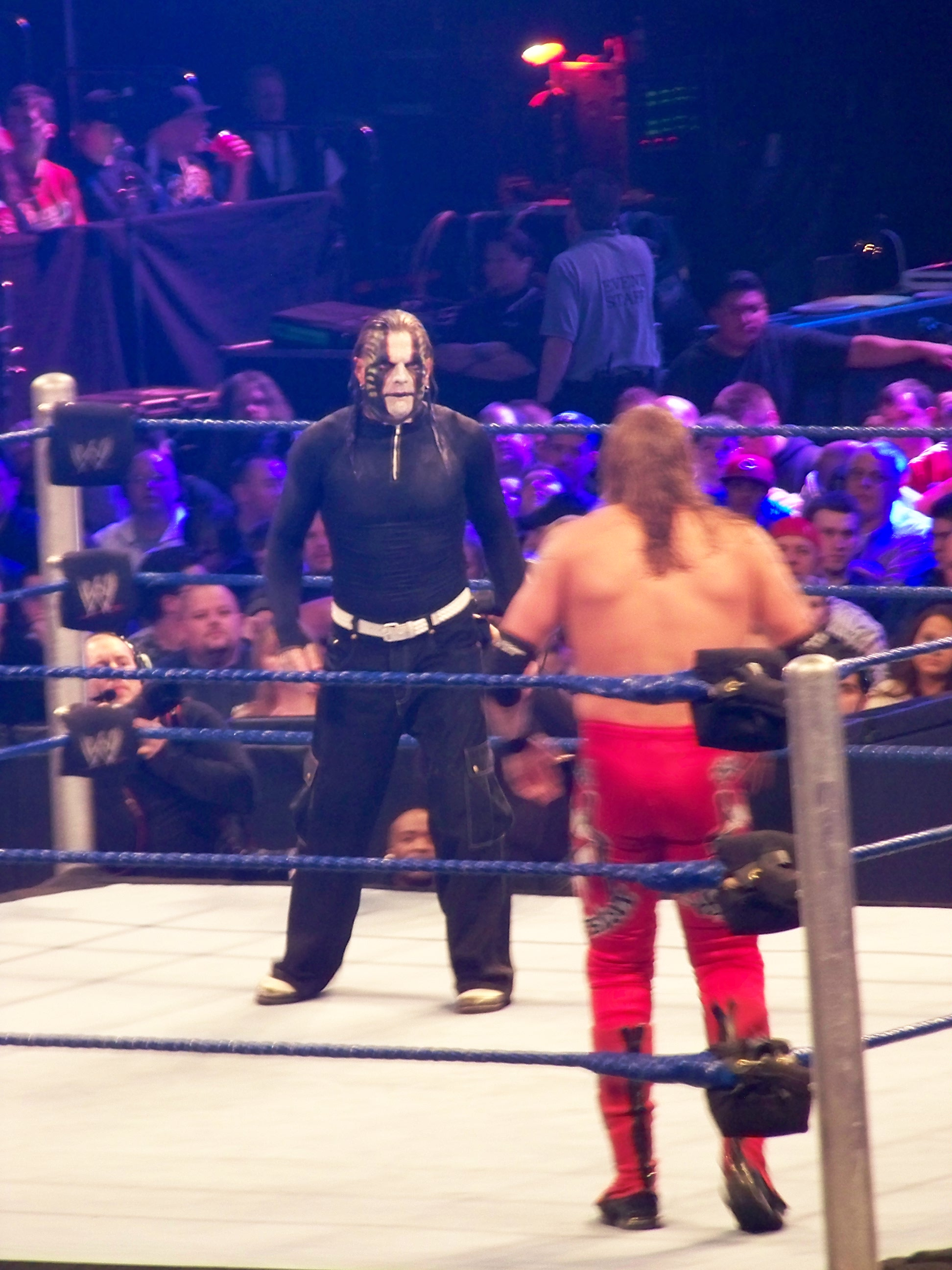 Jeff Hardy v. Edge